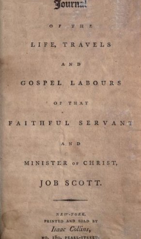 Journal of the life, travels, and gospel labours of that faithful servant and minister of Christ, Job Scott (1797)